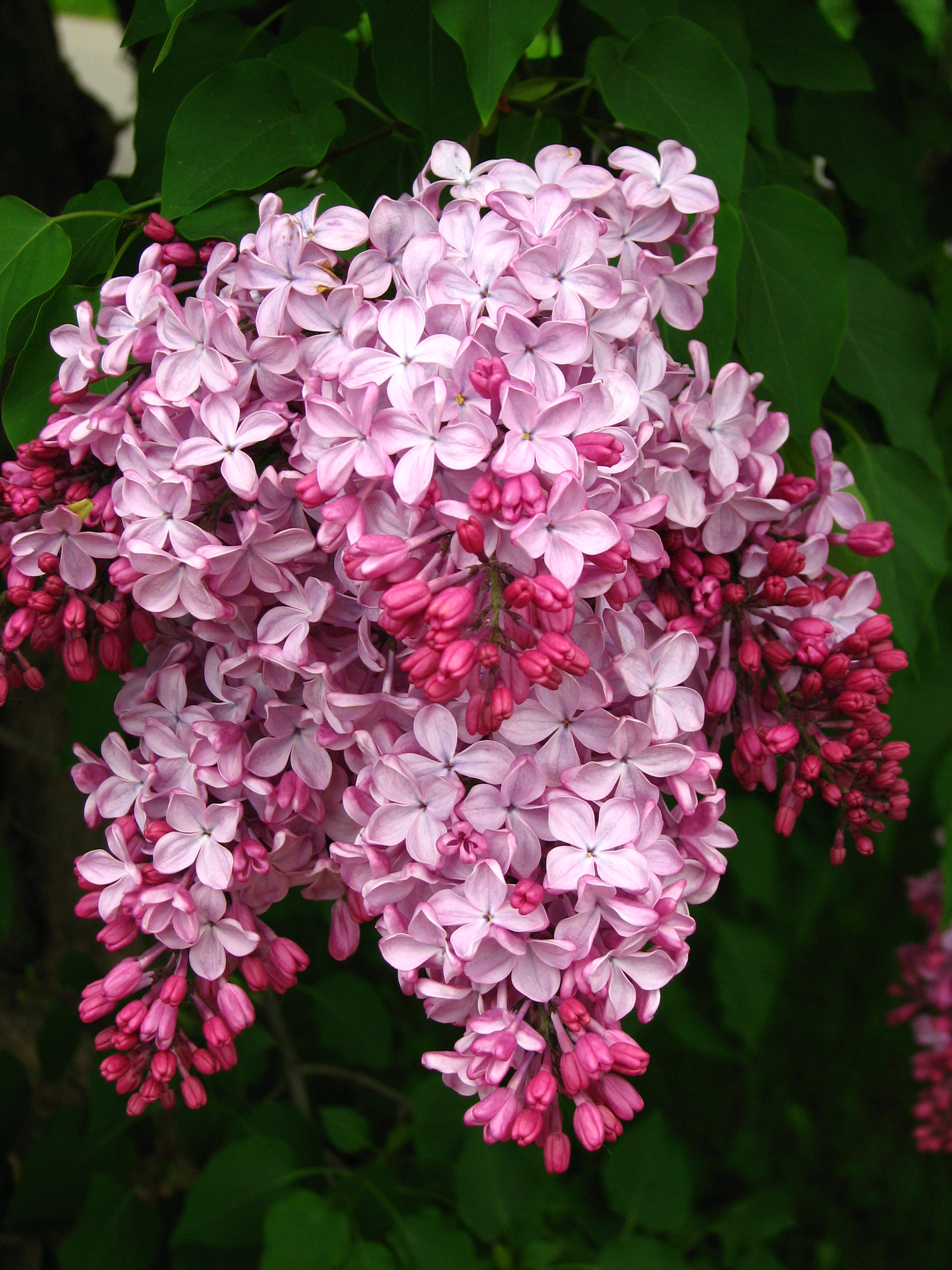 Syringa ×hyacinthiflora 'Esther Staley'. From the collection of the Botanical Garden of Moscow State University (main area on the Sparrow Hills).